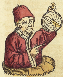 Woodcut from the Nuremberg Chronicle (Latin copy in Sao Paulo)